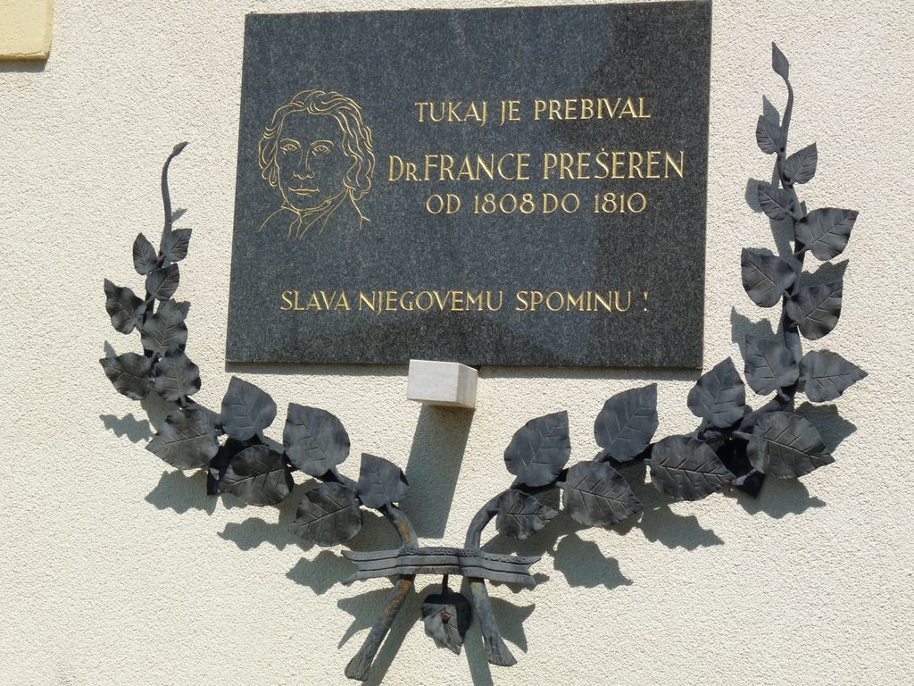 Tukaj je prebival dr. France Prešeren od 1808 do 1810 (Kopanj)